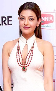 Actress Kajal Aggarwal at the 62nd Filmfare Awards South ceremony held in Nehru Stadium, Chennai